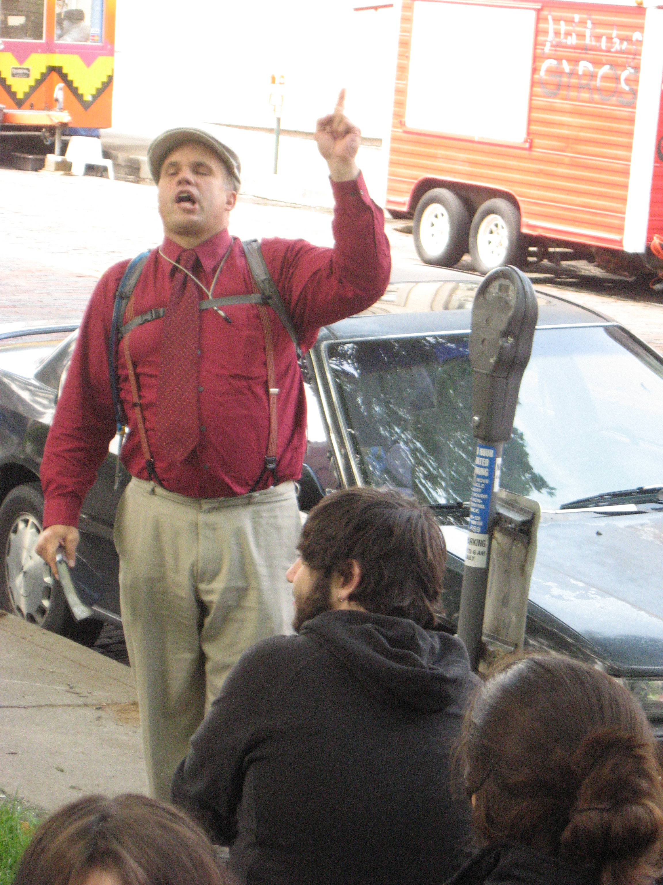 Students confront christian fundamentalist Micah Armstrong at Ohio University (Athens, Ohio, USA)